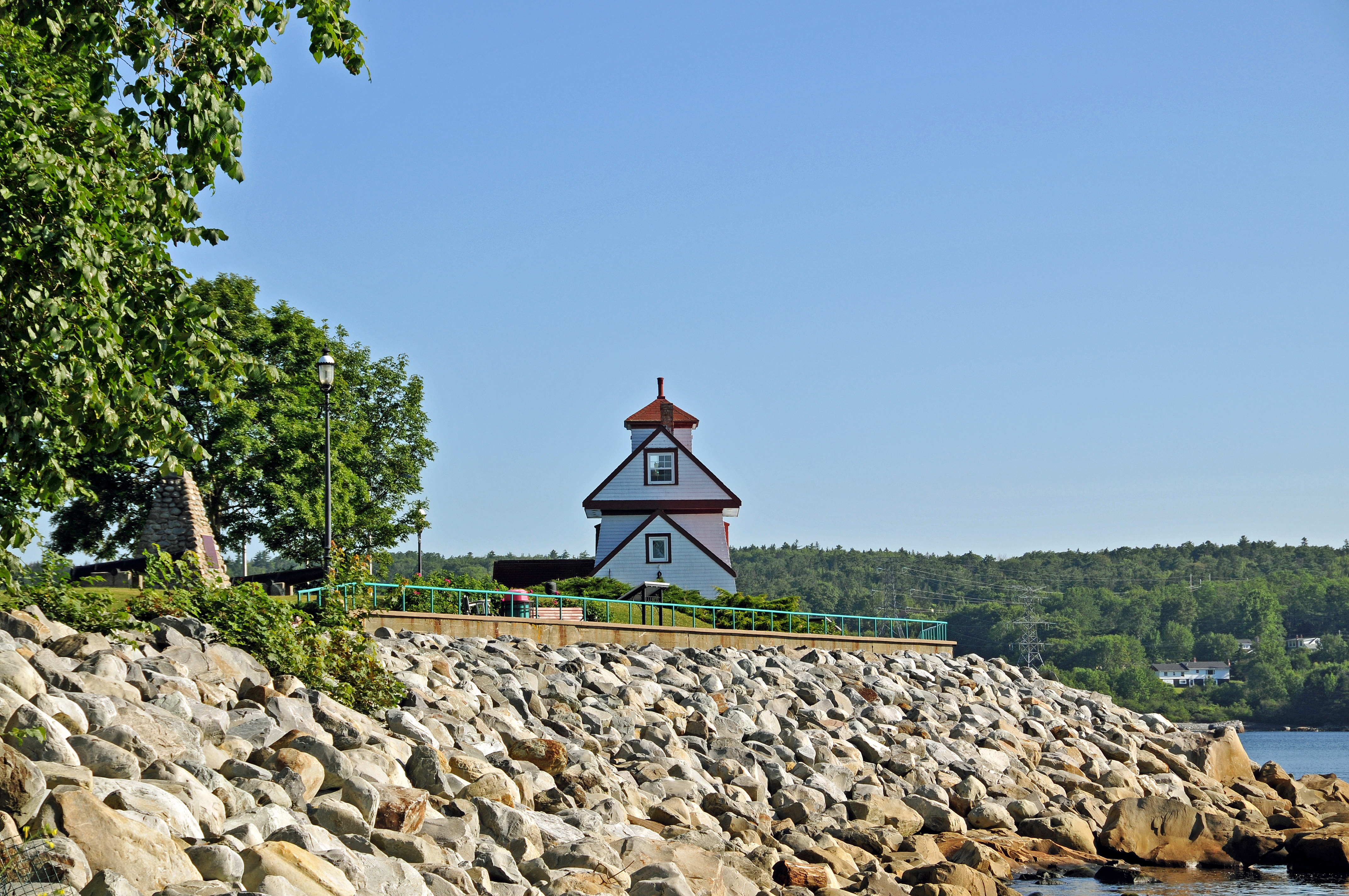 Fort Point Lighthouse. Liverpool, Nova Scotia boasts a uniquely shaped light, one of the oldest in Nova Scotia, commanding a historic site close to the middle of town. Named after the fortified gun battery that protected the town from the 1760s to the 1860s, the point saw several actions in the American Revolution. It was also a signal station and an important public gathering place for the town, becoming park in the late 1800s. The first lighthouse was established here in 1855 This lighthouse is a timber combination dwelling and tower in an unusual "hunchbacked" shape. Body of Water: Liverpool Harbour Scenic Drive: Lighthouse Route Tower Height: 017ft Height Above Water: 030ft Characteristic: Flashing White (1950) Still standing: True Still operating: False